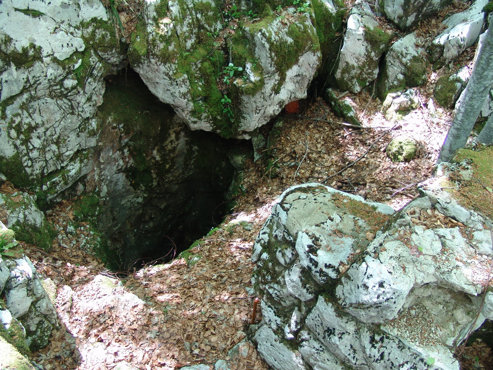 Saranova pit, Velebit, Croatia. Place for killing Serbs and Jews in Concentration camps complex Jadovno - Gospić - Pag